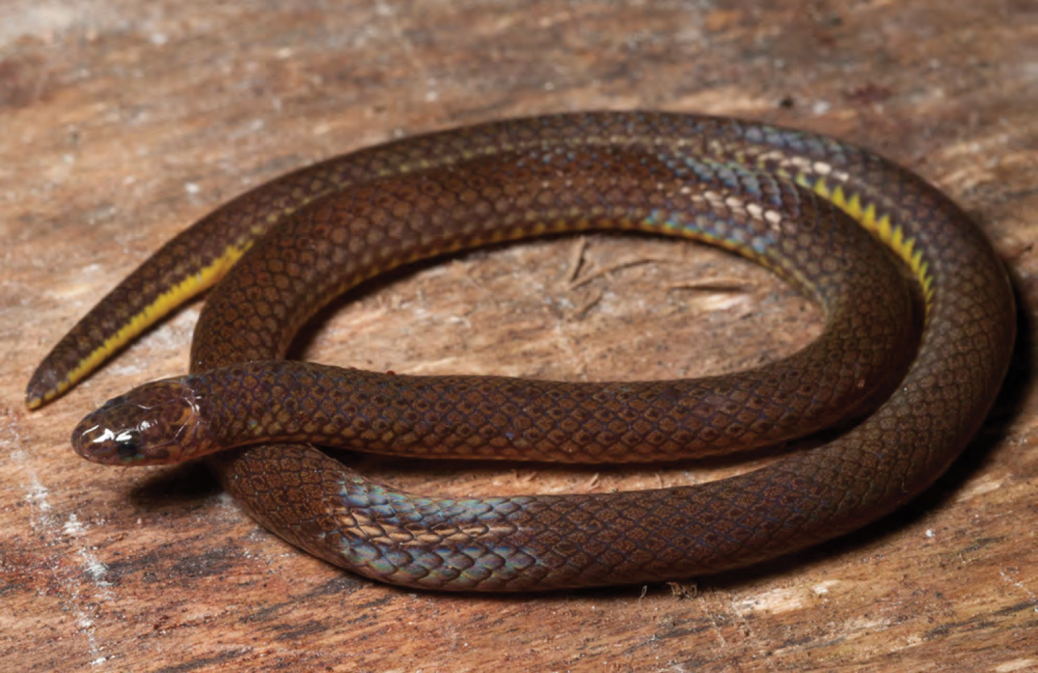 Calamaria gervaisii (KU 330084) from 1000m, Mt. Cagua. Photo: RMB.